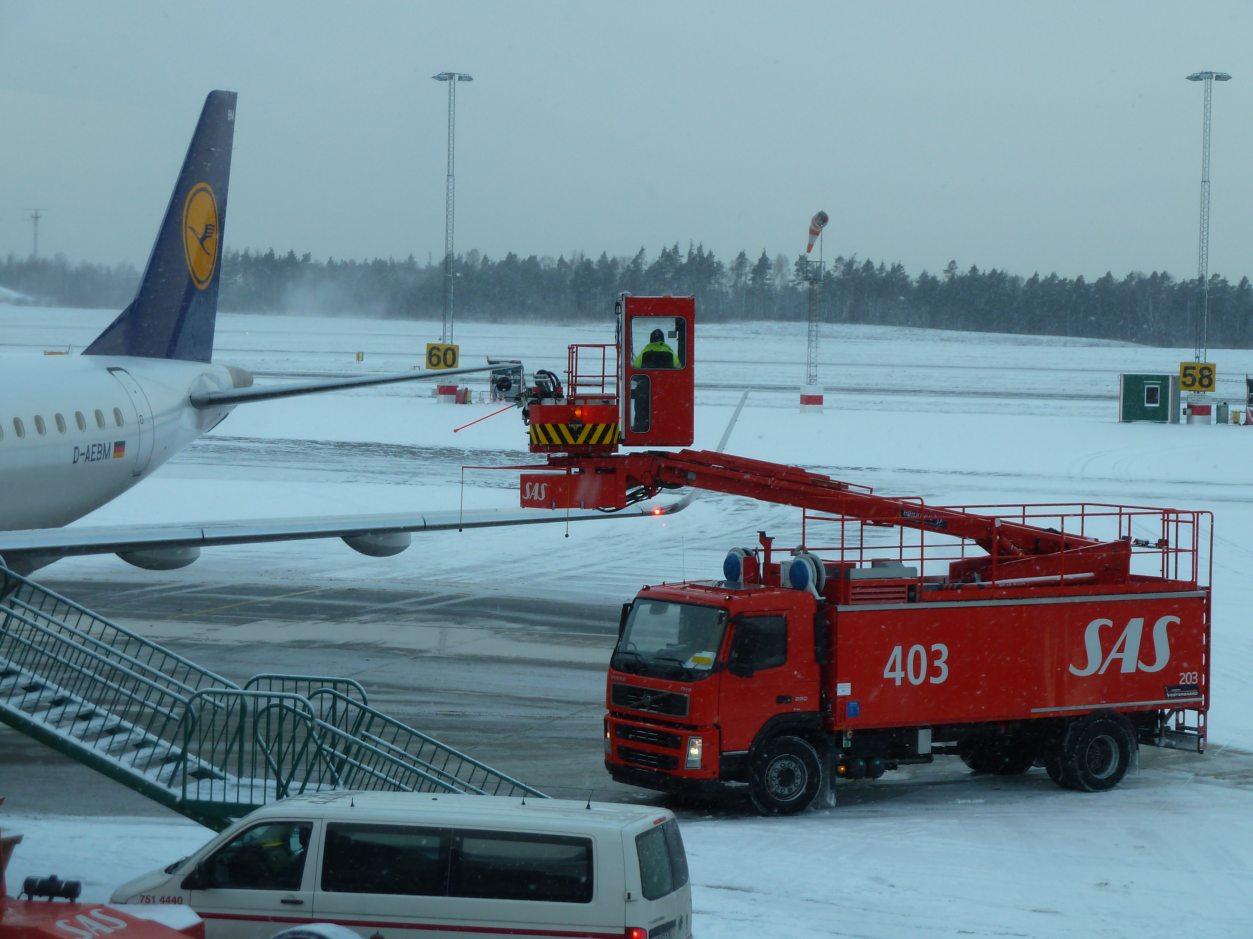 De-icing of a Lufthansa's Embraer 195 aircraft in Gothenburg's Landvetter airport